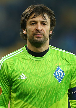 UEFA Europa League 2014-15 1/8 Final